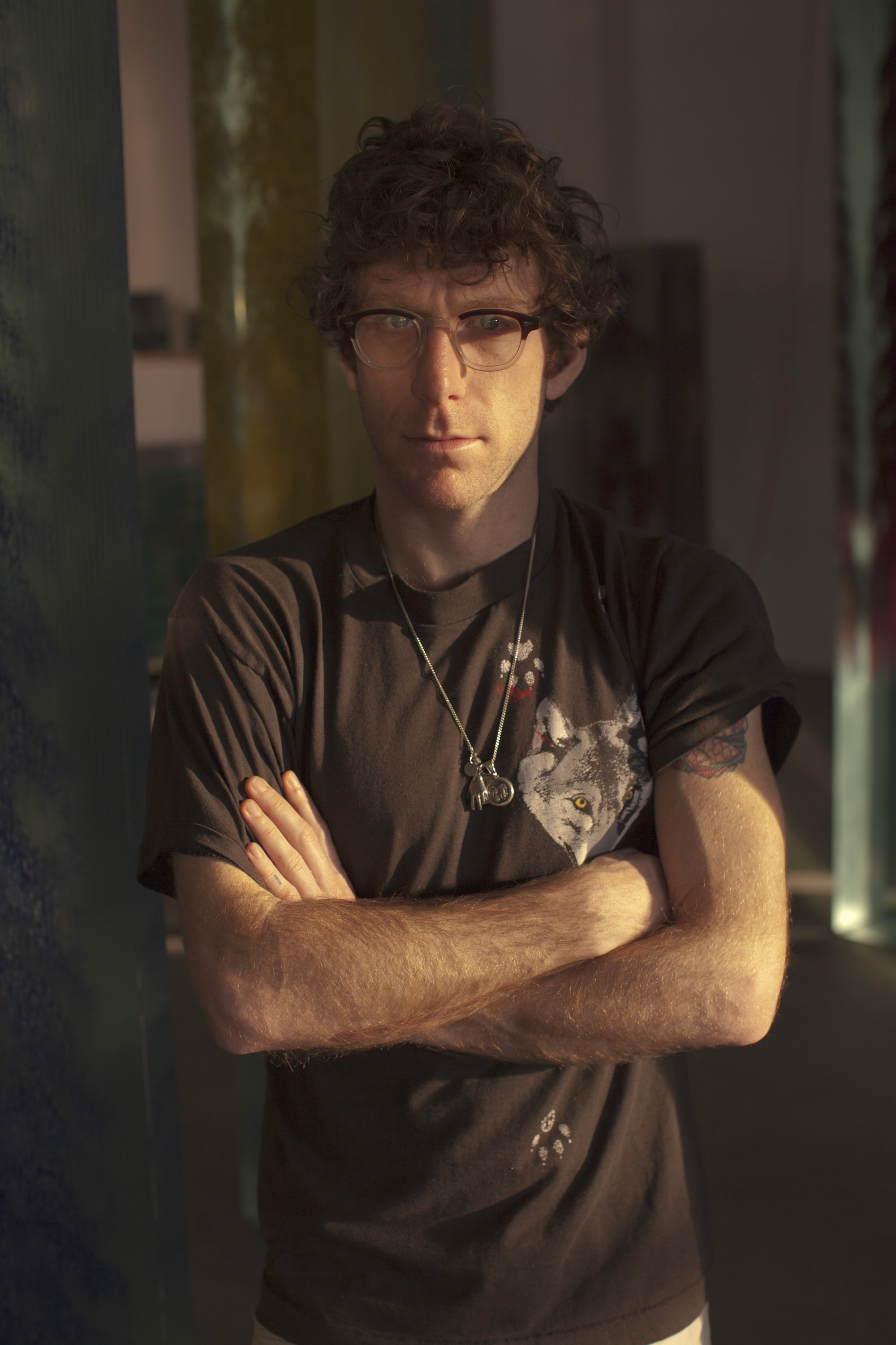 Dustin Yellin Portrait